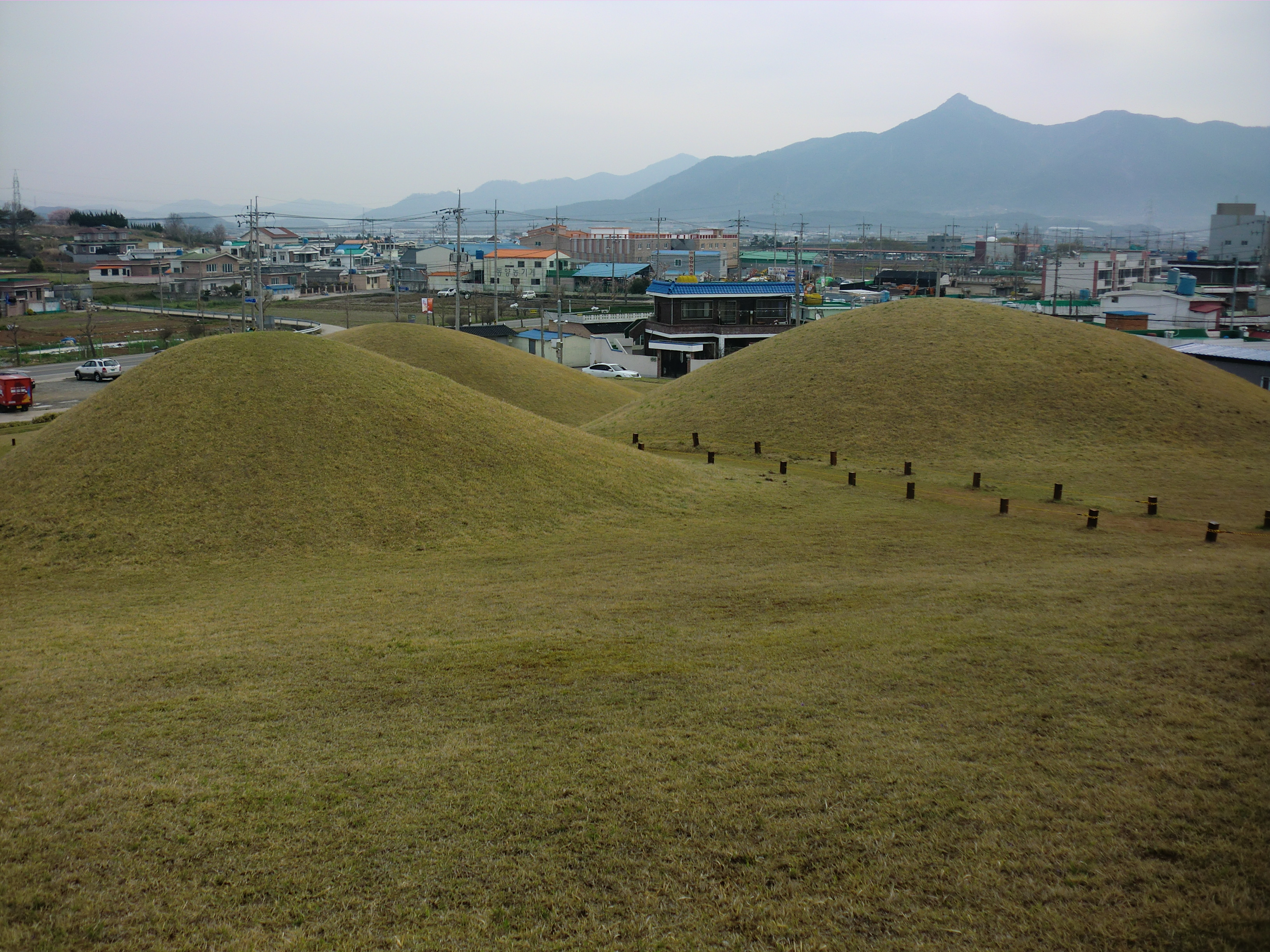 Goseong Seonghak Tomb. Goseong, Gyeongsangnam-do